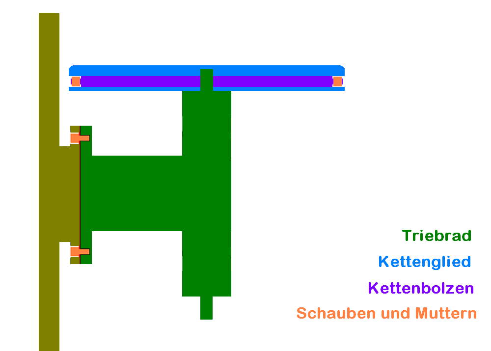 Power wheel of a tank hinge joint track in section